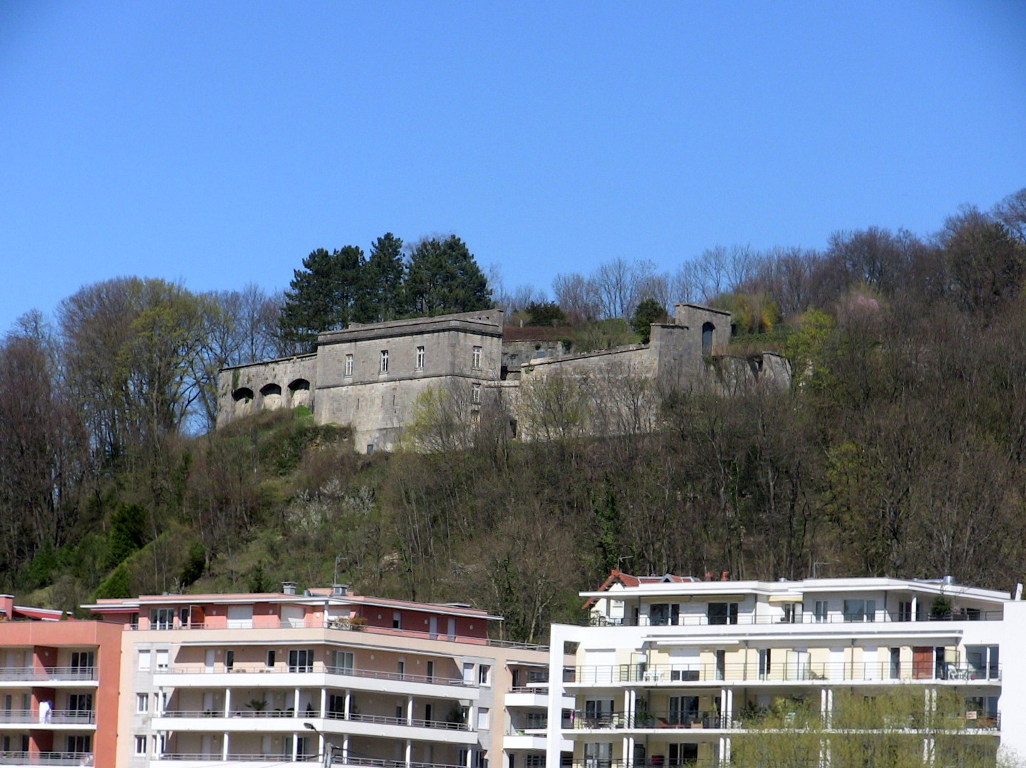 The fort Beauregard, located in Besançon (Doubs, France).